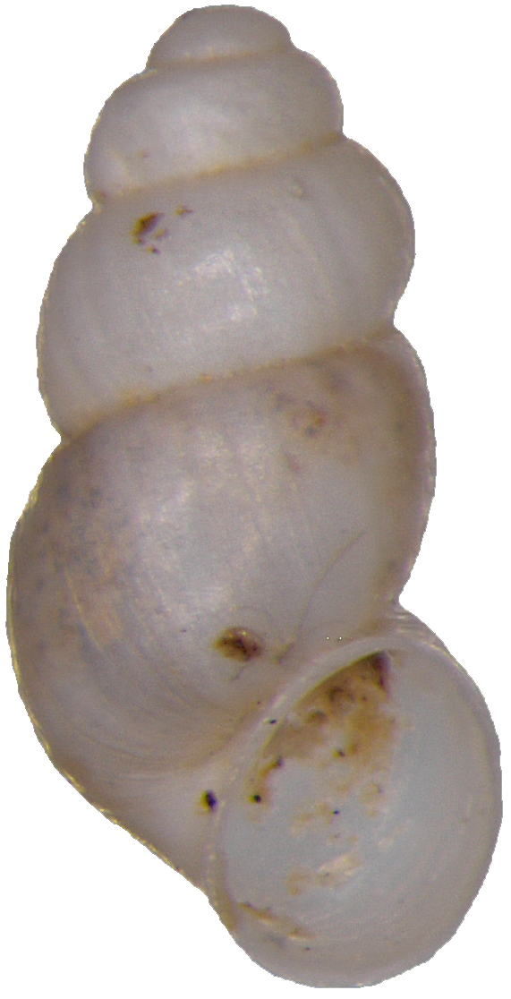 Photo of apertural view of a shell of Alzoniella slovenica